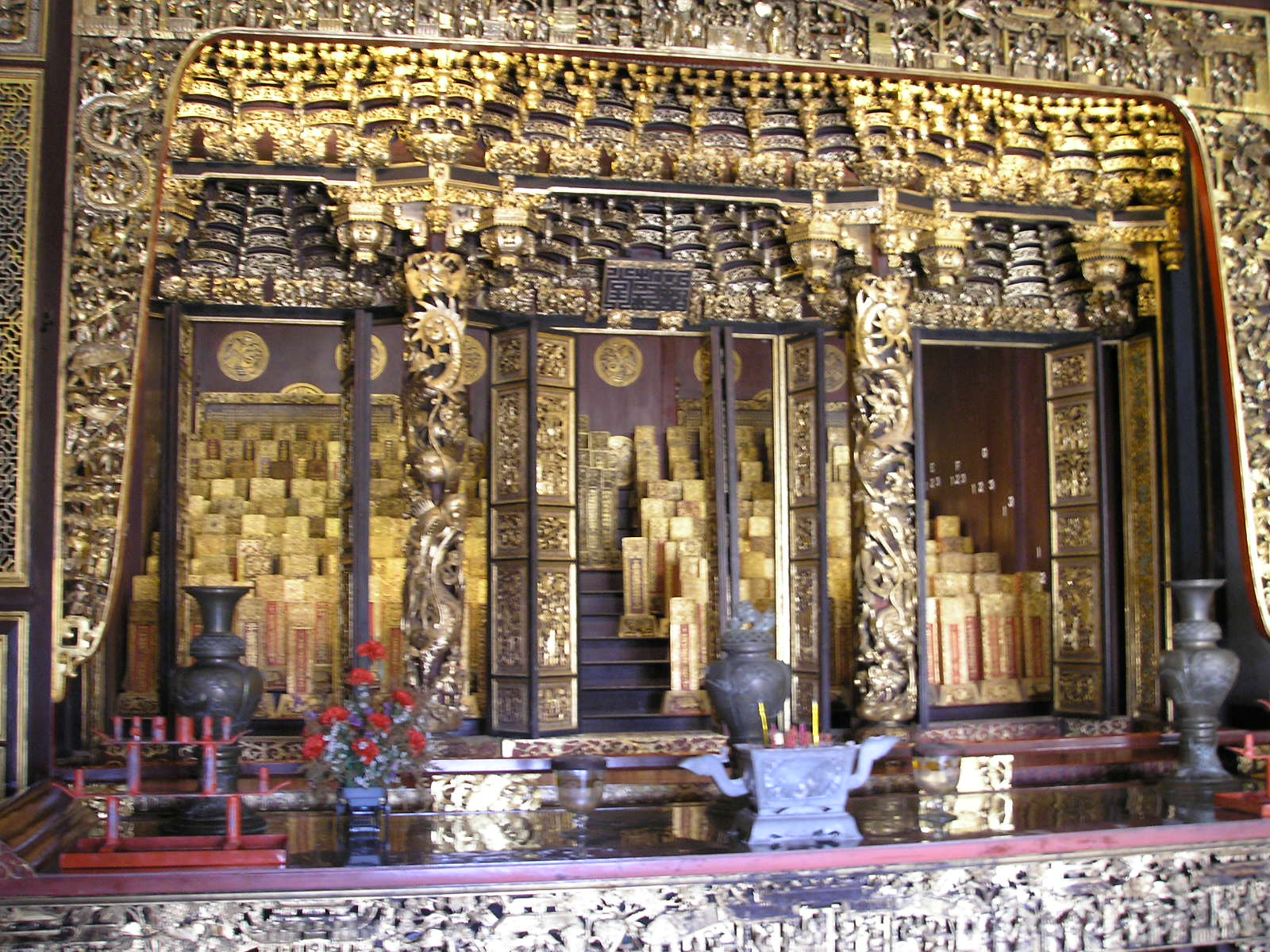 Image of an altar with ancestral tablets at the Leong San Tong Khoo Kongsi (also known as Khoo Kongsi Temple) in George Town, Penang.